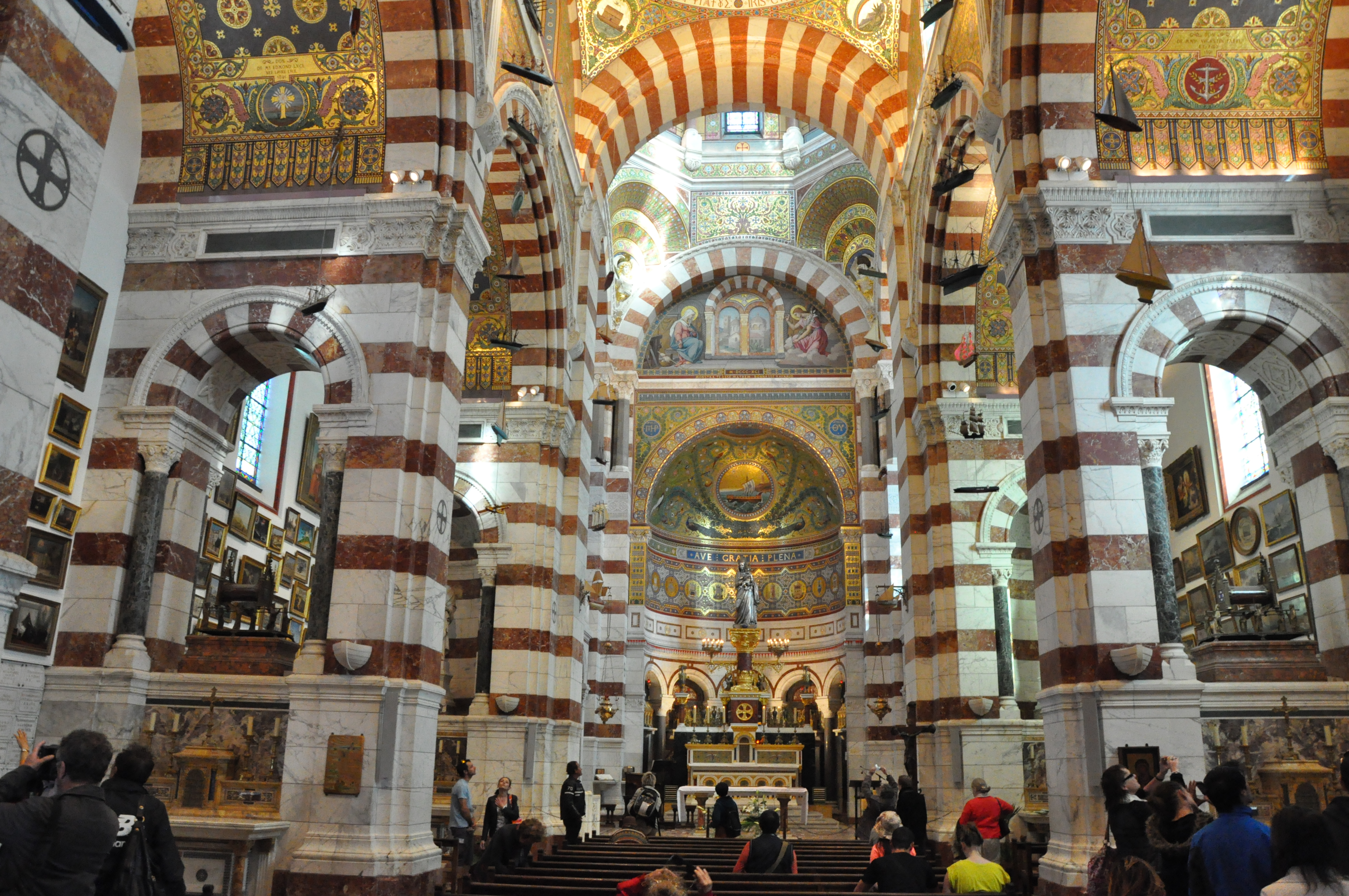 (Marseille, France, Provence), nave an choir of Basilique Notre-Dame de la Garde